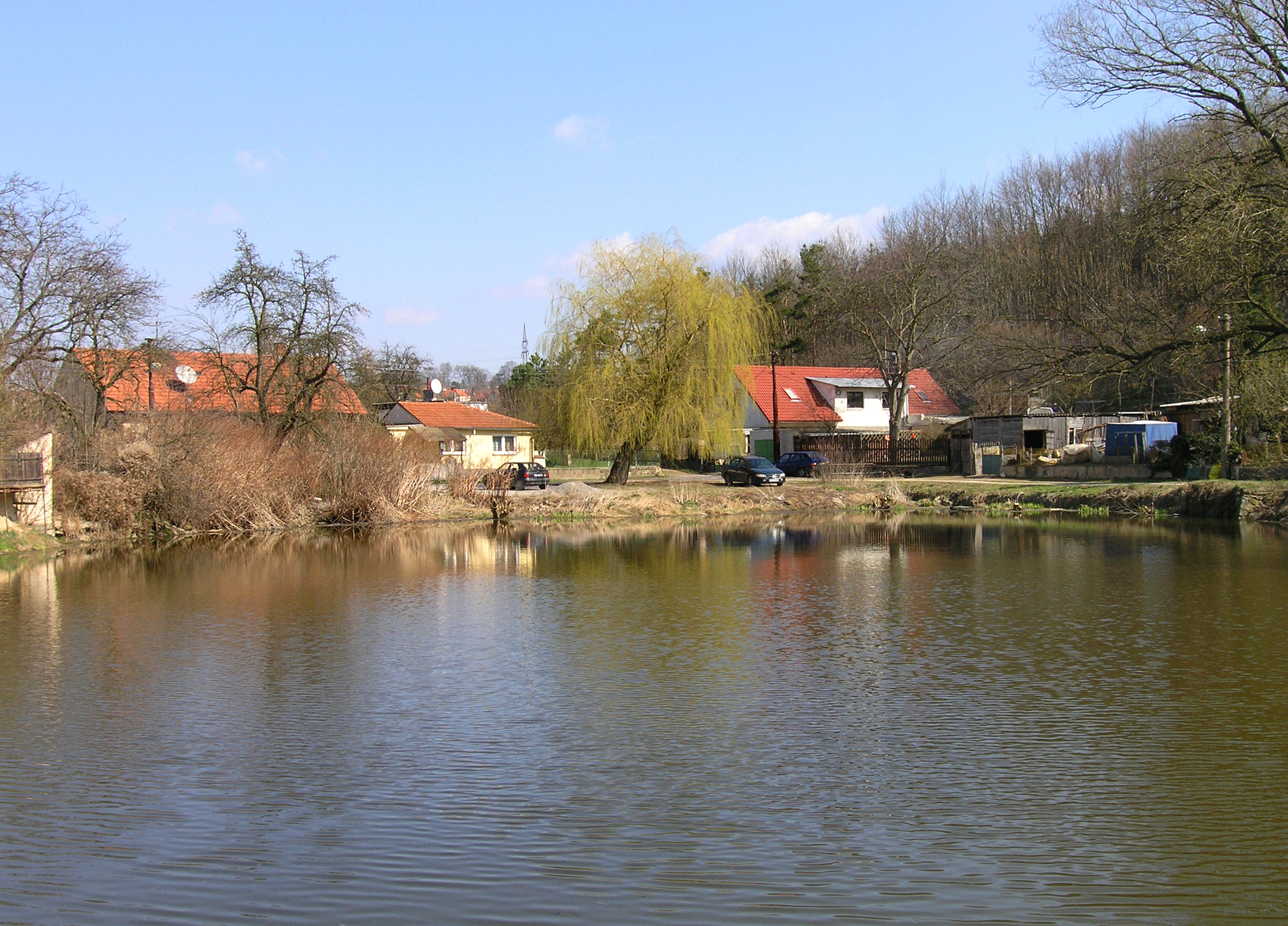 Pond in Lužce village, Czech Republic